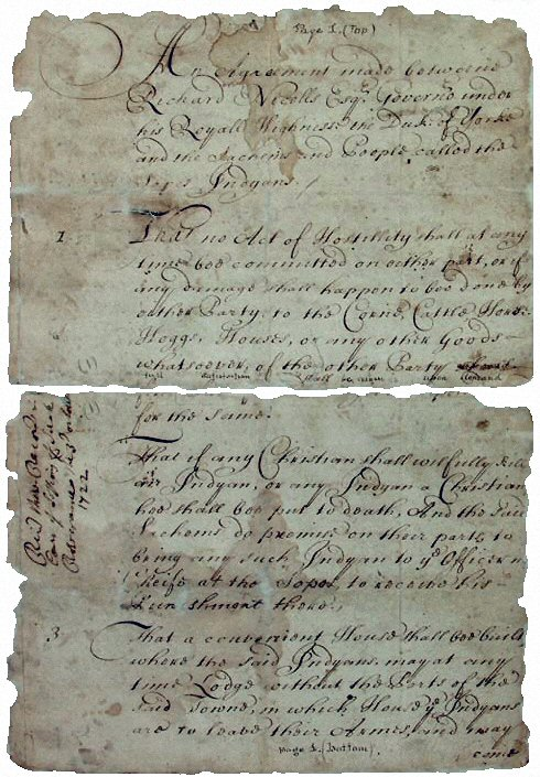 Page 1 of the treaty between the British and the Esopus Indians. This page forbids hostility between the two groups, including harming livestock and buildings, and sets forth equal punishment for murder by both Europeans ("Christians") and Natives ("Indyans").